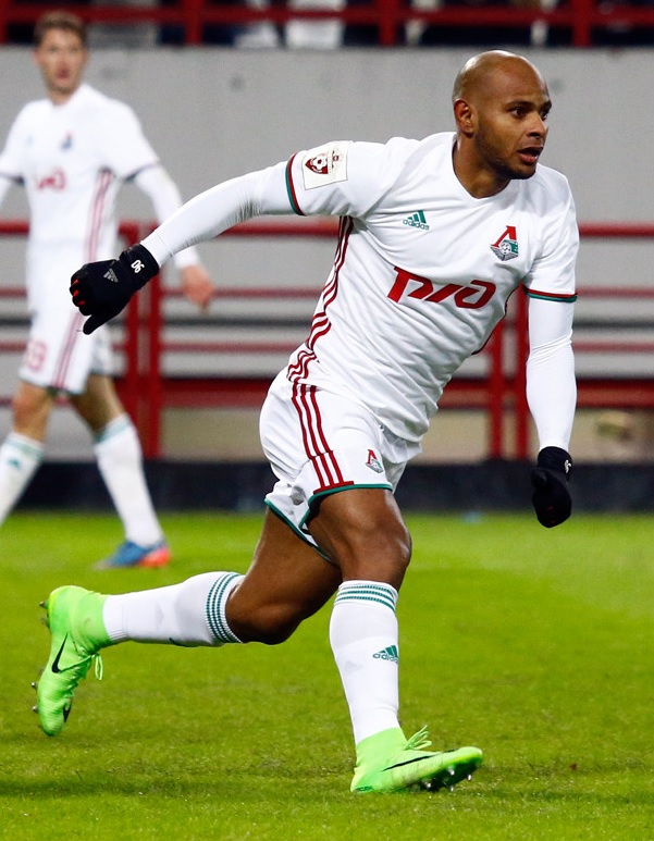 Ari with FC Lokomotiv Moscow in a Russian Cup game against FC Tosno.